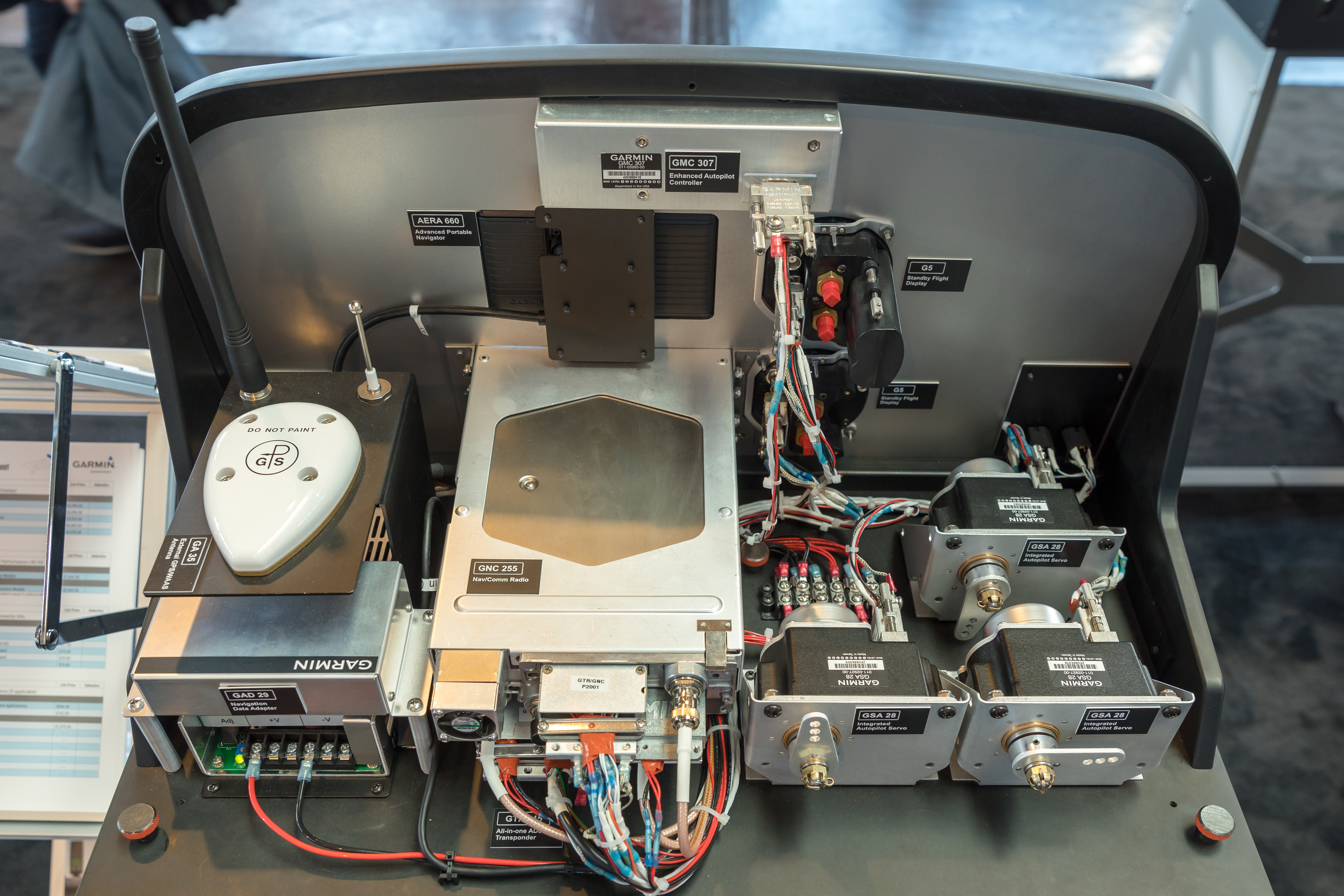 Garmin avionics components, AERO Friedrichshafen 2018